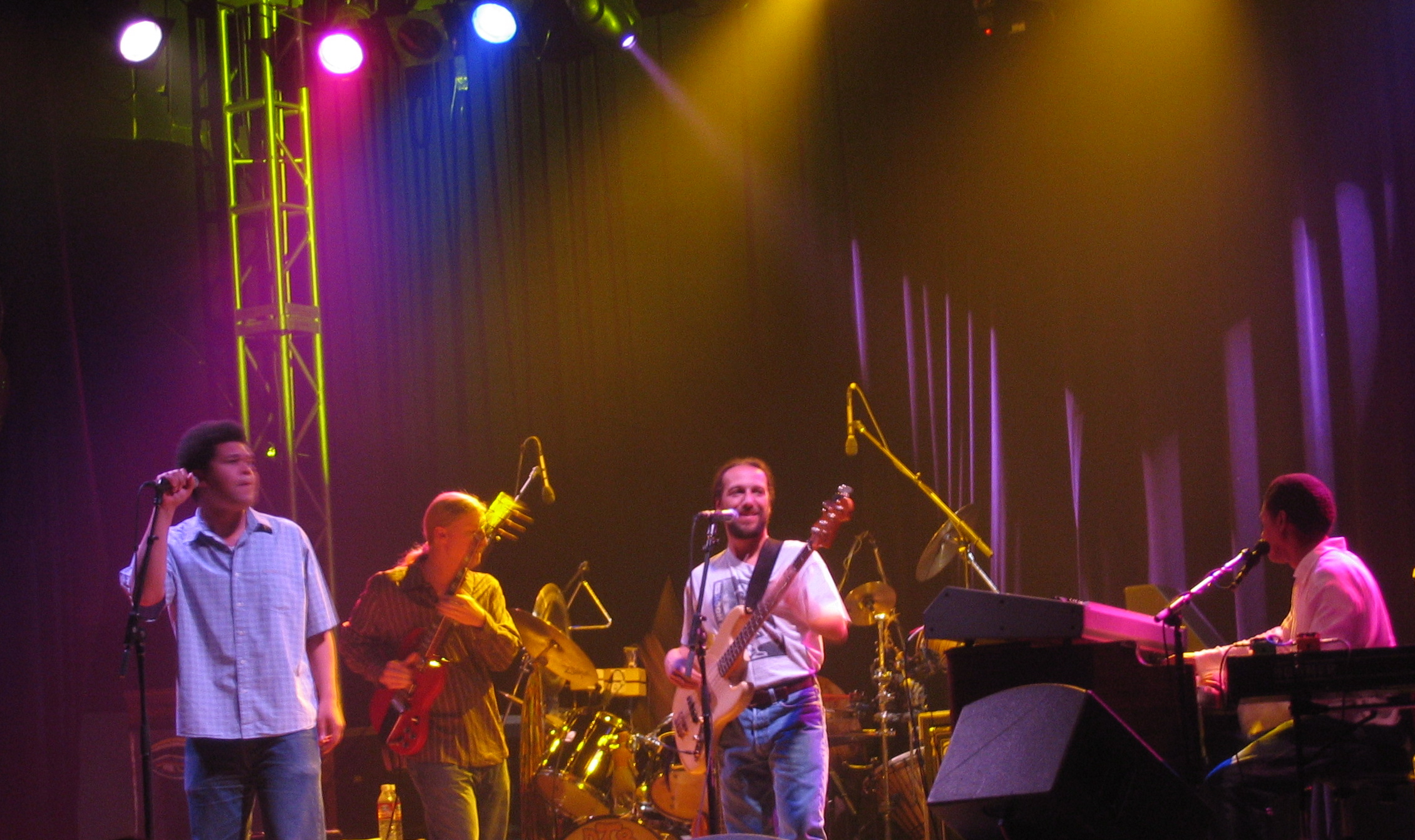 The Derek Trucks Band performing at the Granada Theater in Dallas, TX on April 21, 2005.